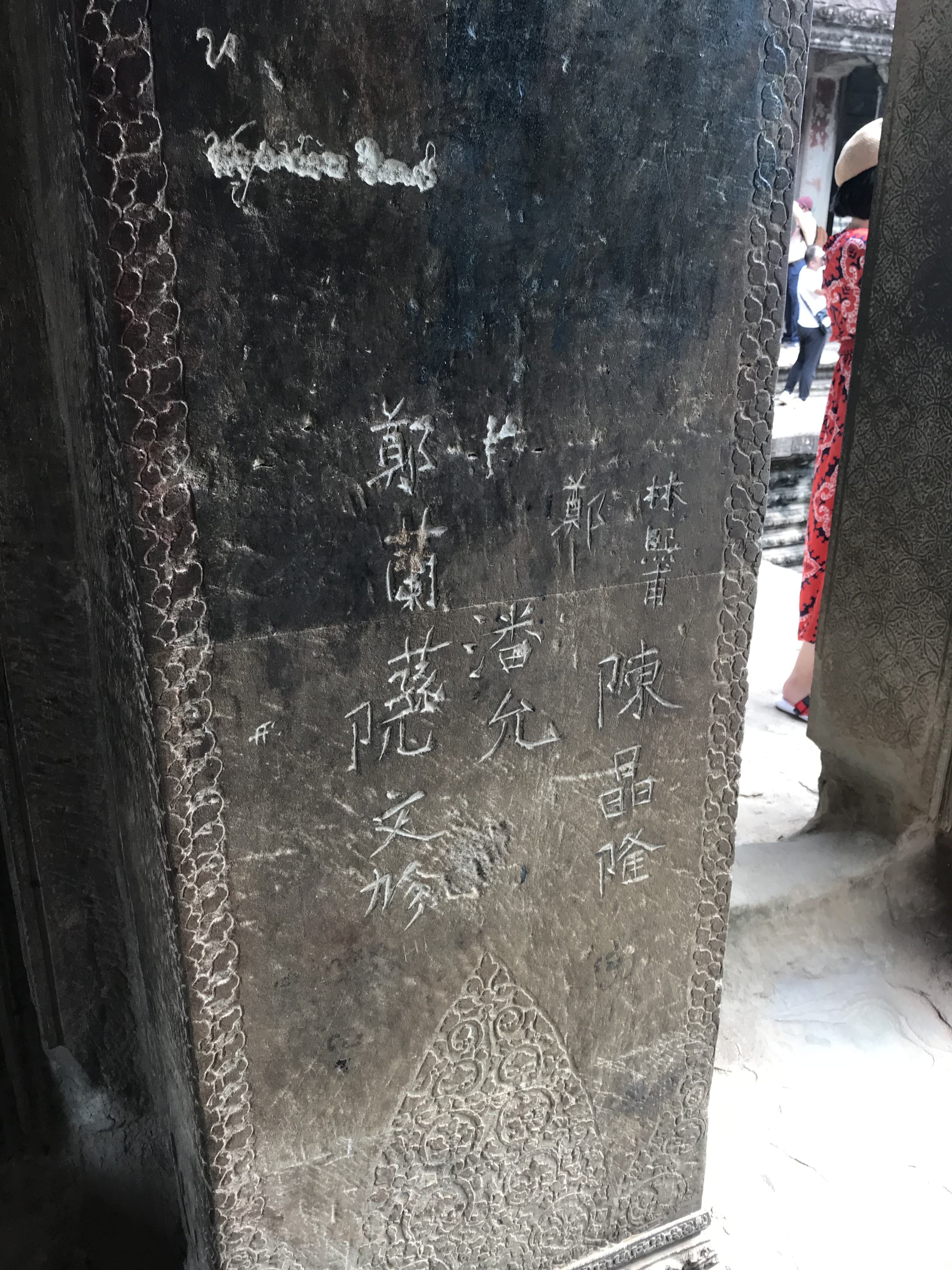 Grafitti left at Angkor Wat, Cambodia